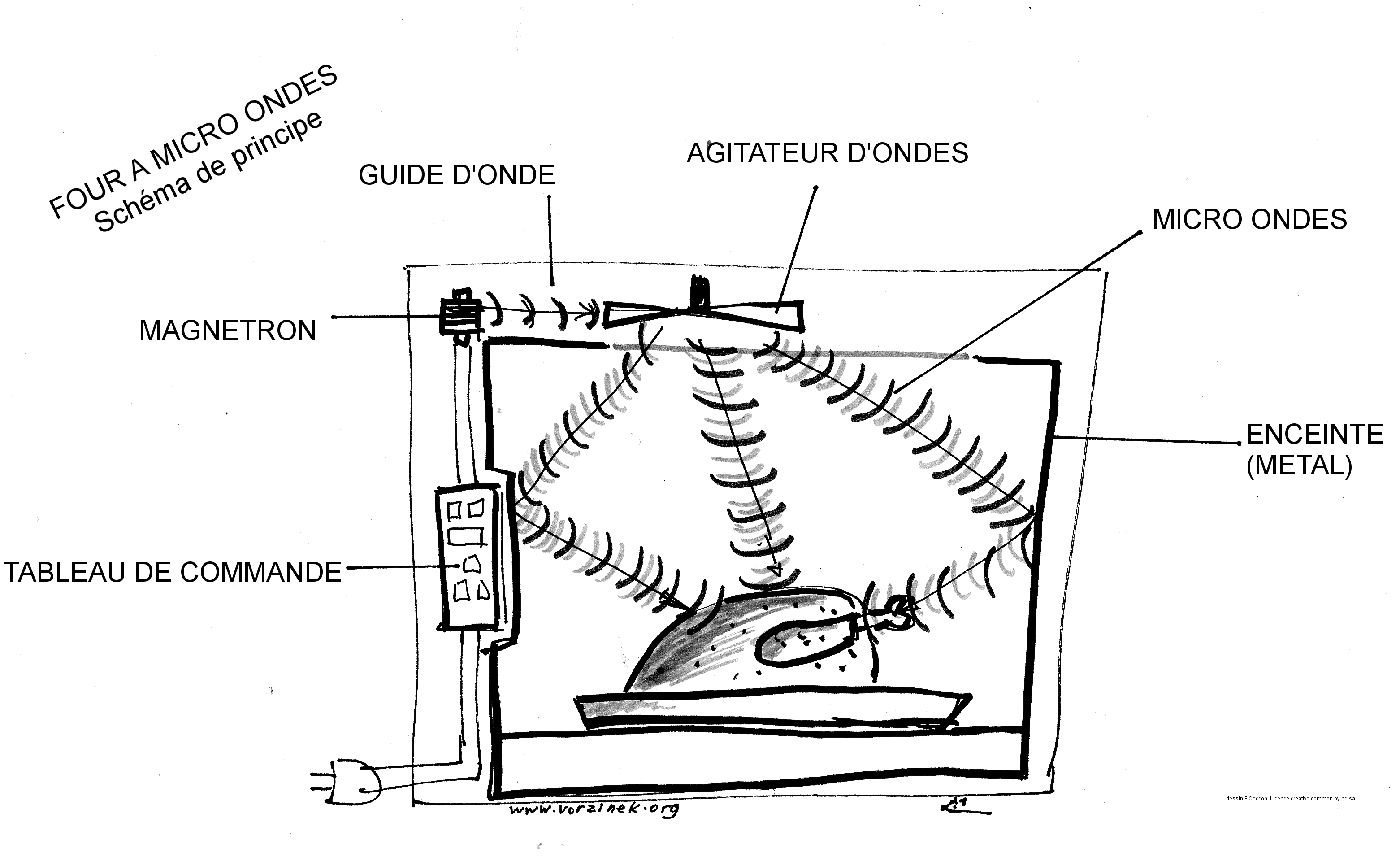 micro wave oven